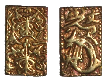 Bunzi-1buban(gold)